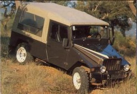 UMM ourni 1983-84